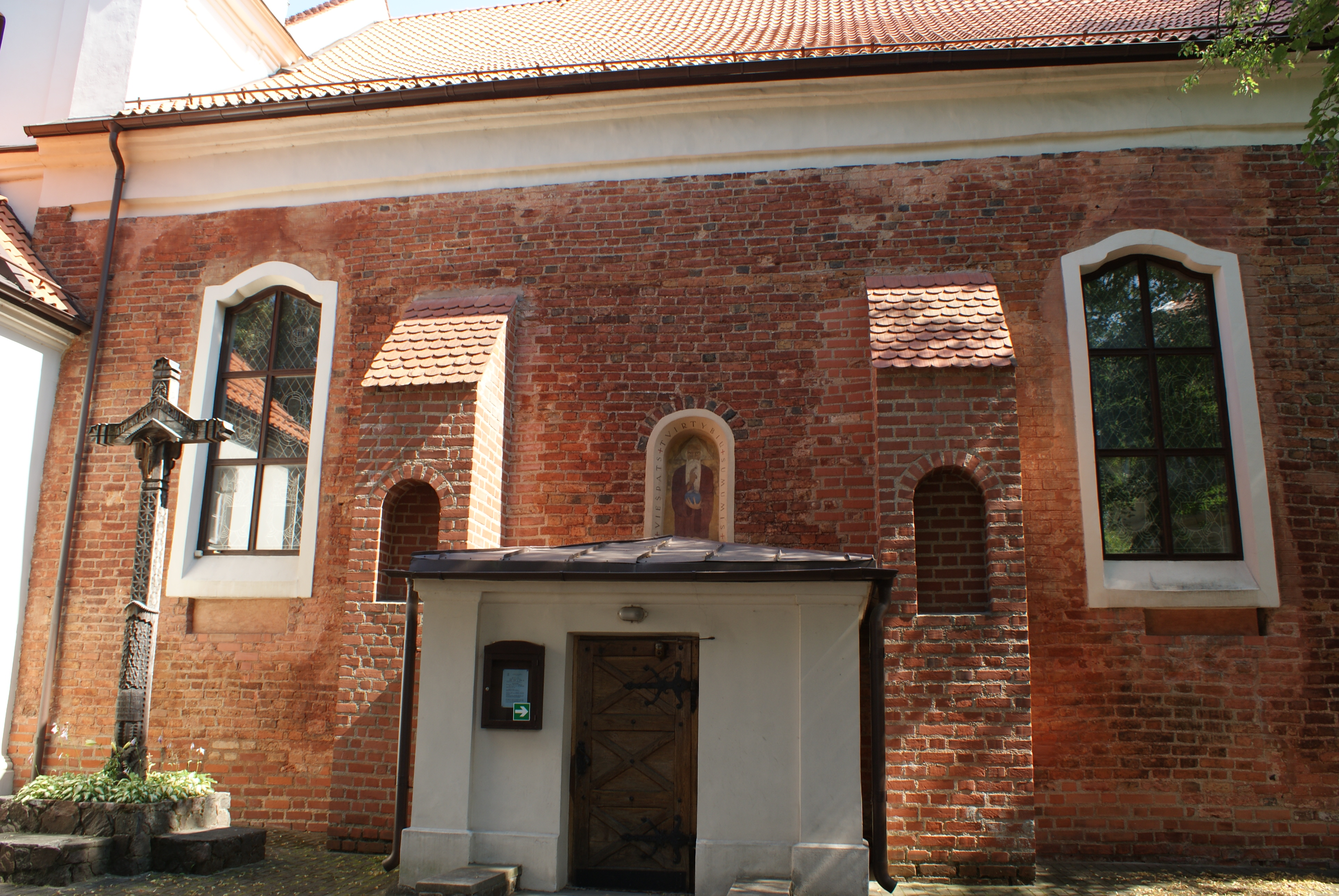 Church of St. Nicholas in Vilnius